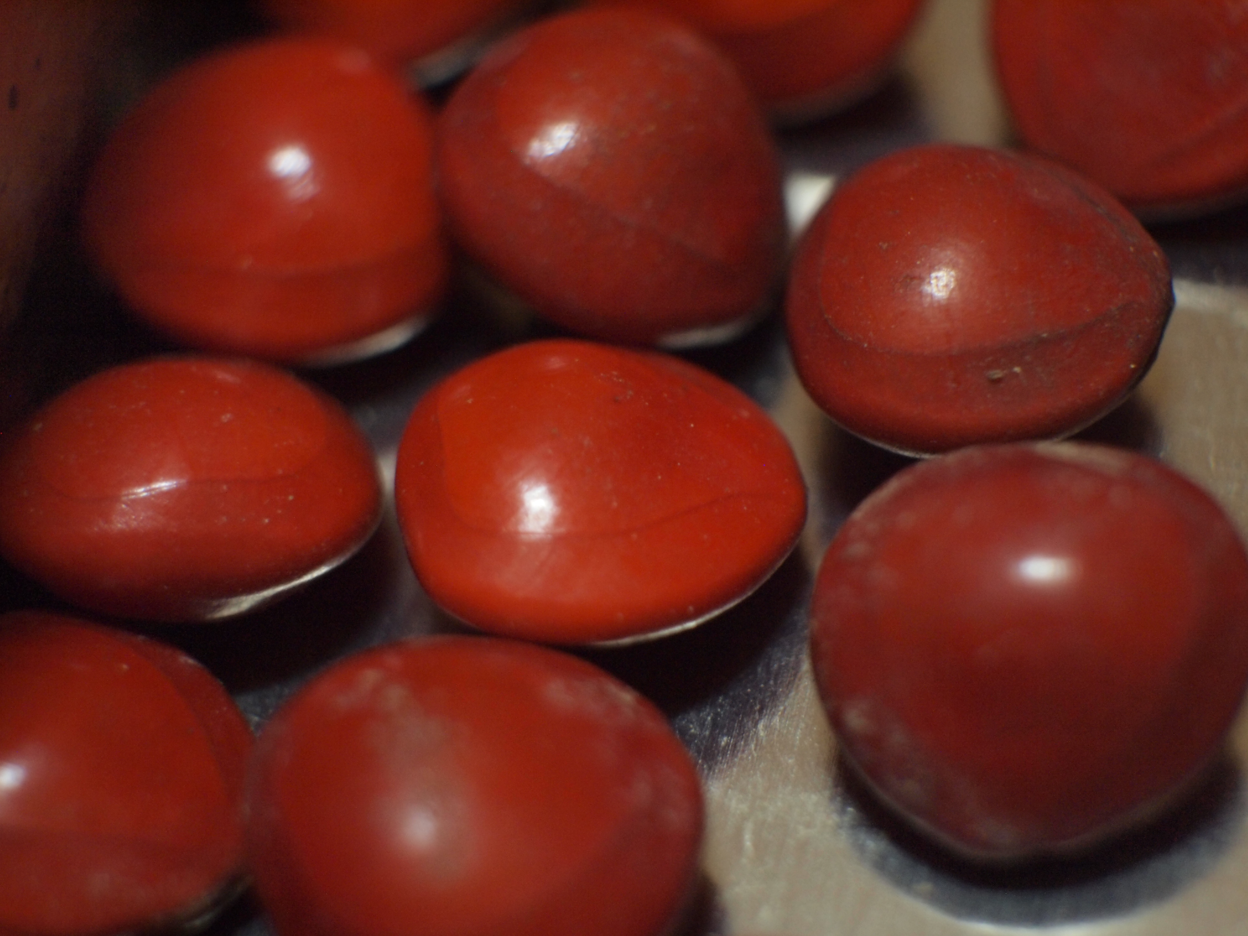 Adenanthera pavonina of Malaysia